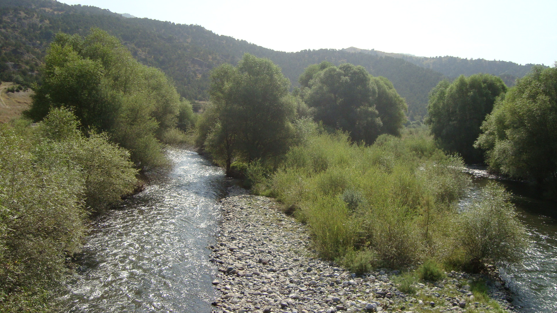 Akari river in Berdzor. Location: Berdzor city, Kashatagh district, Republic of Mountainous Karabakh (Azerbaijan).